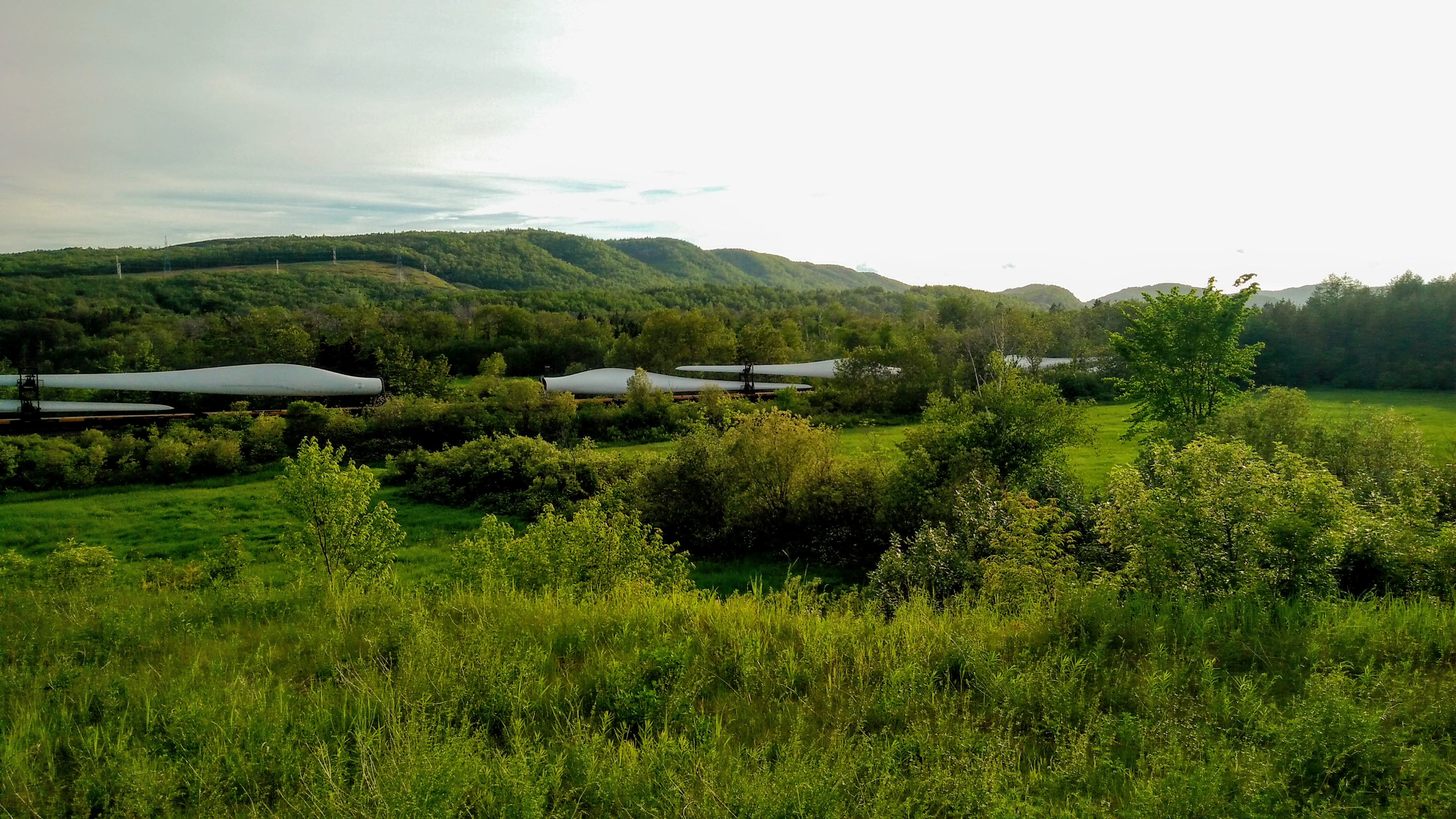 A windmill blade convoy on the Gaspésie Railway near Nouvelle